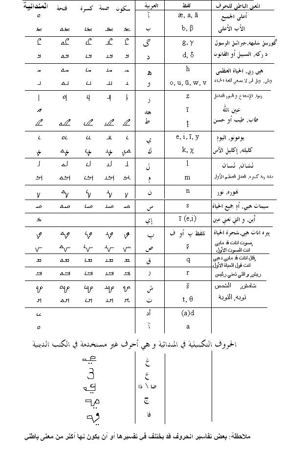 Mandaic alphabet with Arabic description and pronounciation in addition to some of the mysteries represented by the letters